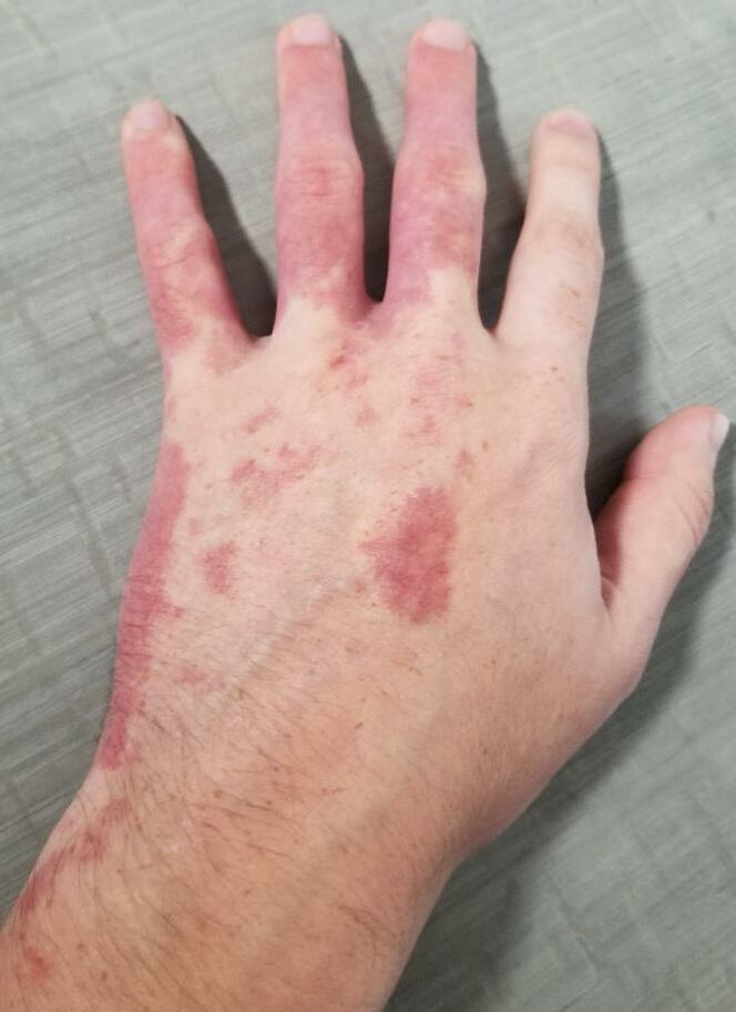 My left hand with port-wine stain